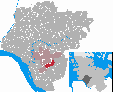 This map shows the area of the municipality Süderau in the Kreis (district) Steinburg, Schleswig-Holstein, Germany.